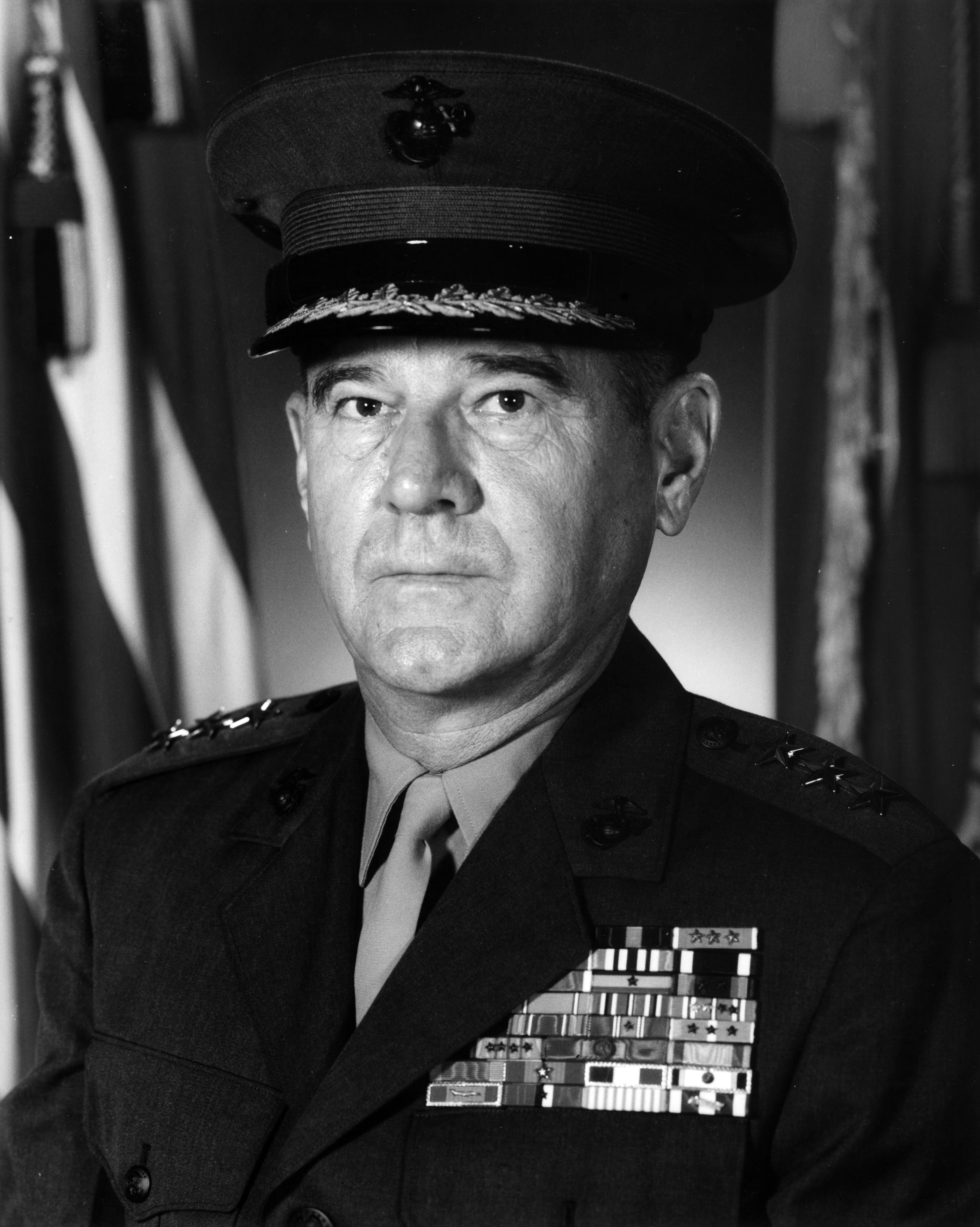 Leo John Dulacki (born December 29, 1918) is a highly decorated retired lieutenant general in the United States Marine Corps. During his 32 years of active service, Dulacki held several important intelligence assignment, including service in Moscow and Helsinki, and completed his career as Director of Personnel/Deputy Chief of Staff for Manpower at Headquarters Marine Corps.